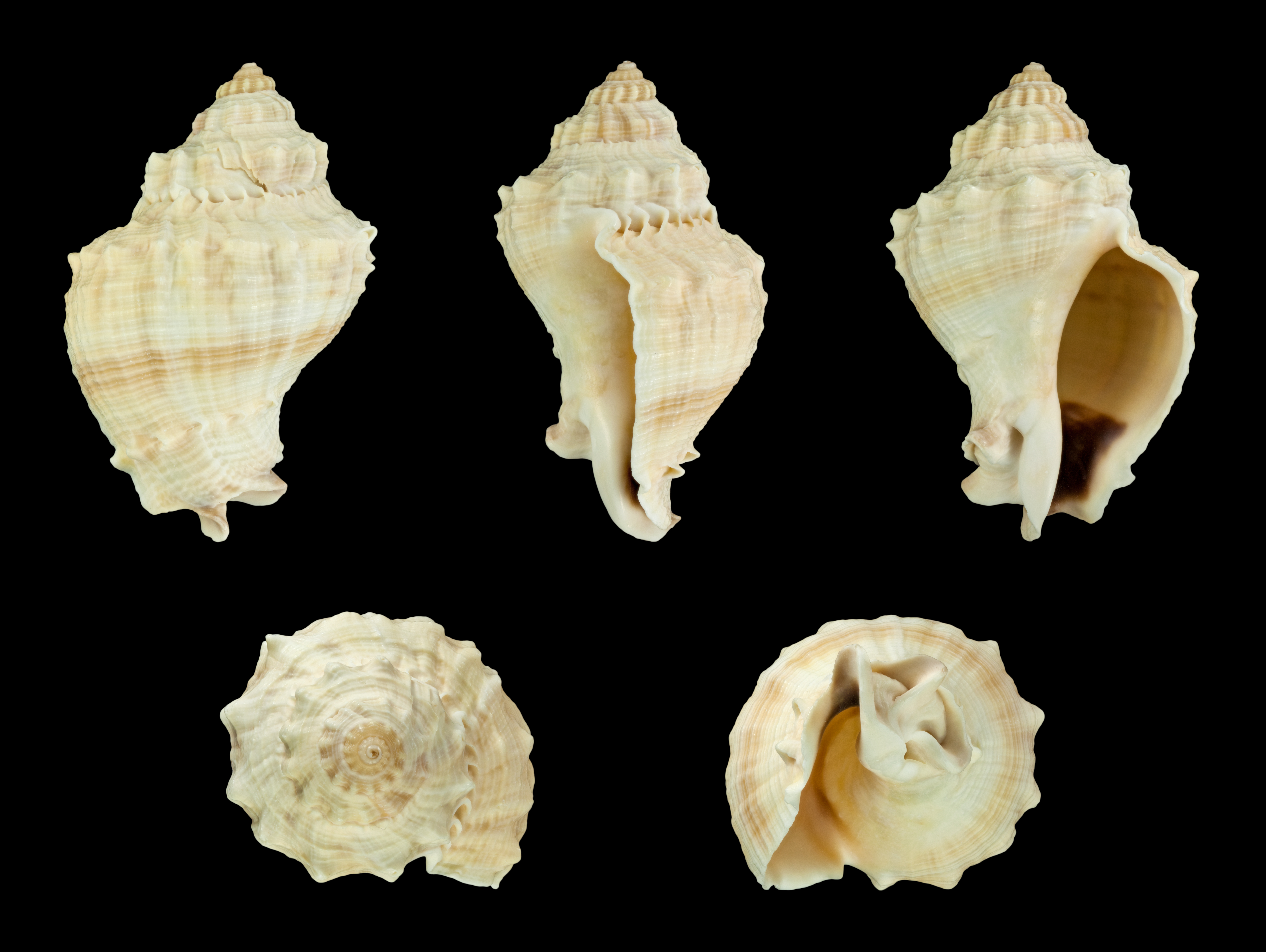 Melongena bispinosa (Philippi, 1844); length 5.5 cm; Originating from Mexico; Shell of own collection, therefore not geocoded.